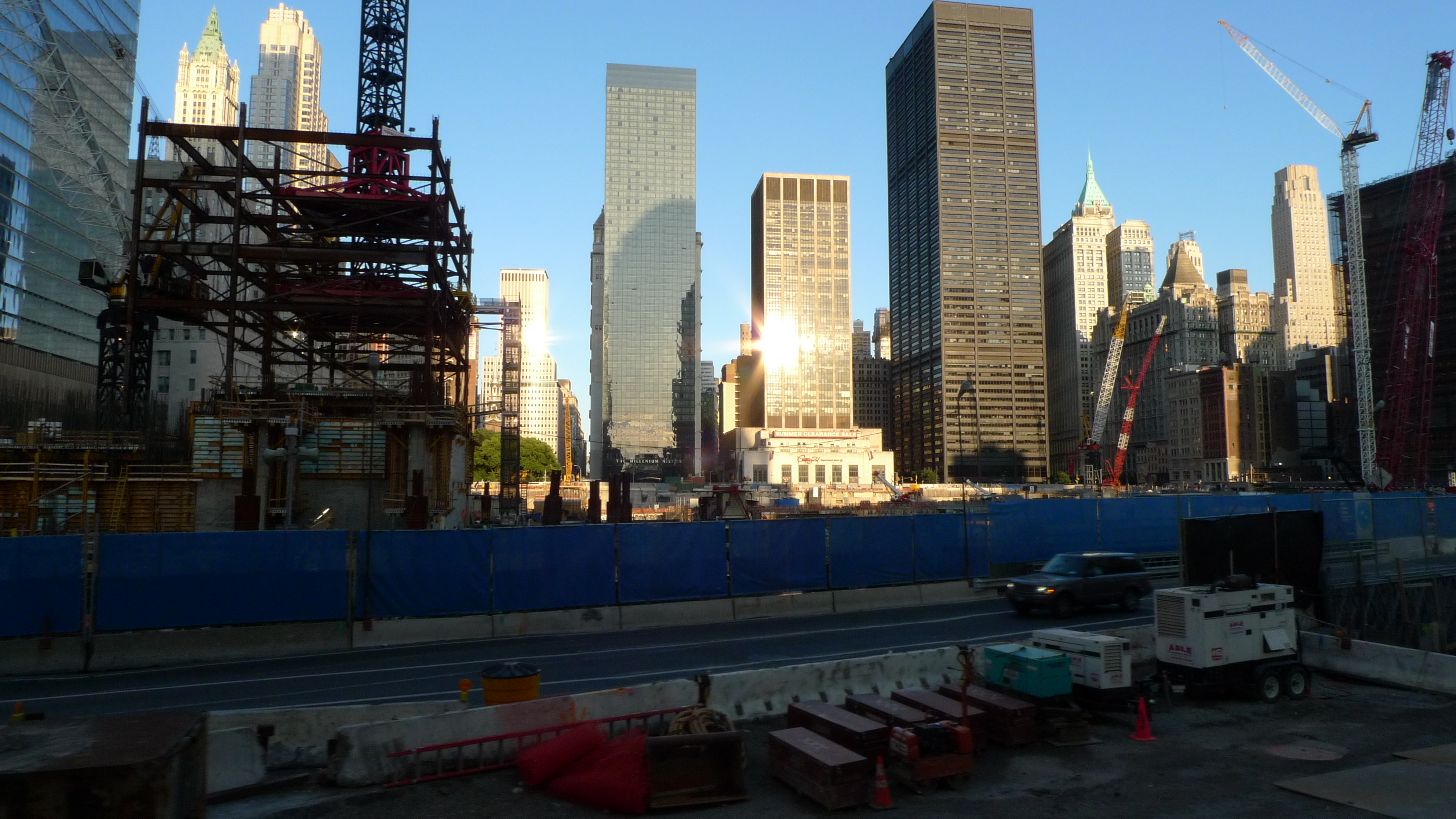 Ground Zero Site in New York, New York, in July 2009